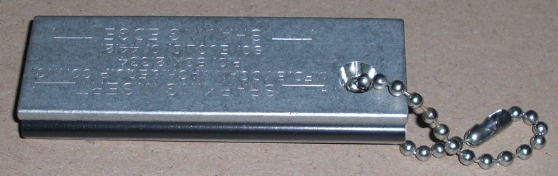 Emergency fire starter